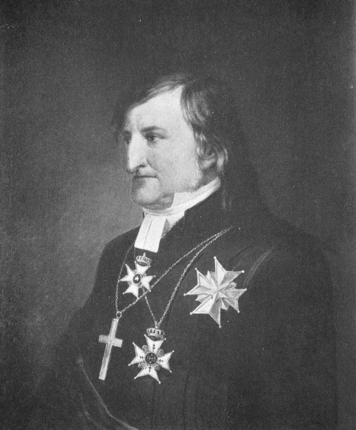 Christopher Isac Heurlin (1786-1860), Swedish clergyman and politician. Bishop of Visby 1838-1841, minister of education 1842-1844, bishop of Växjö 1847-1860.